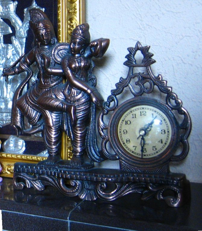 Clock combined with aum symbol as well as a sculpture of Radha and Krishna.